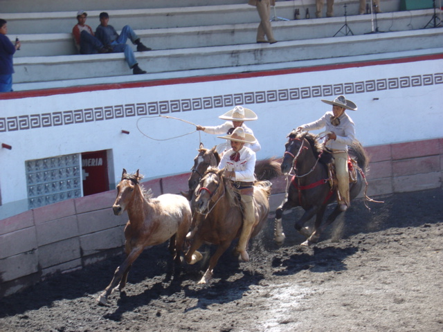 Charros competing in a charreada in Teapa, charreria